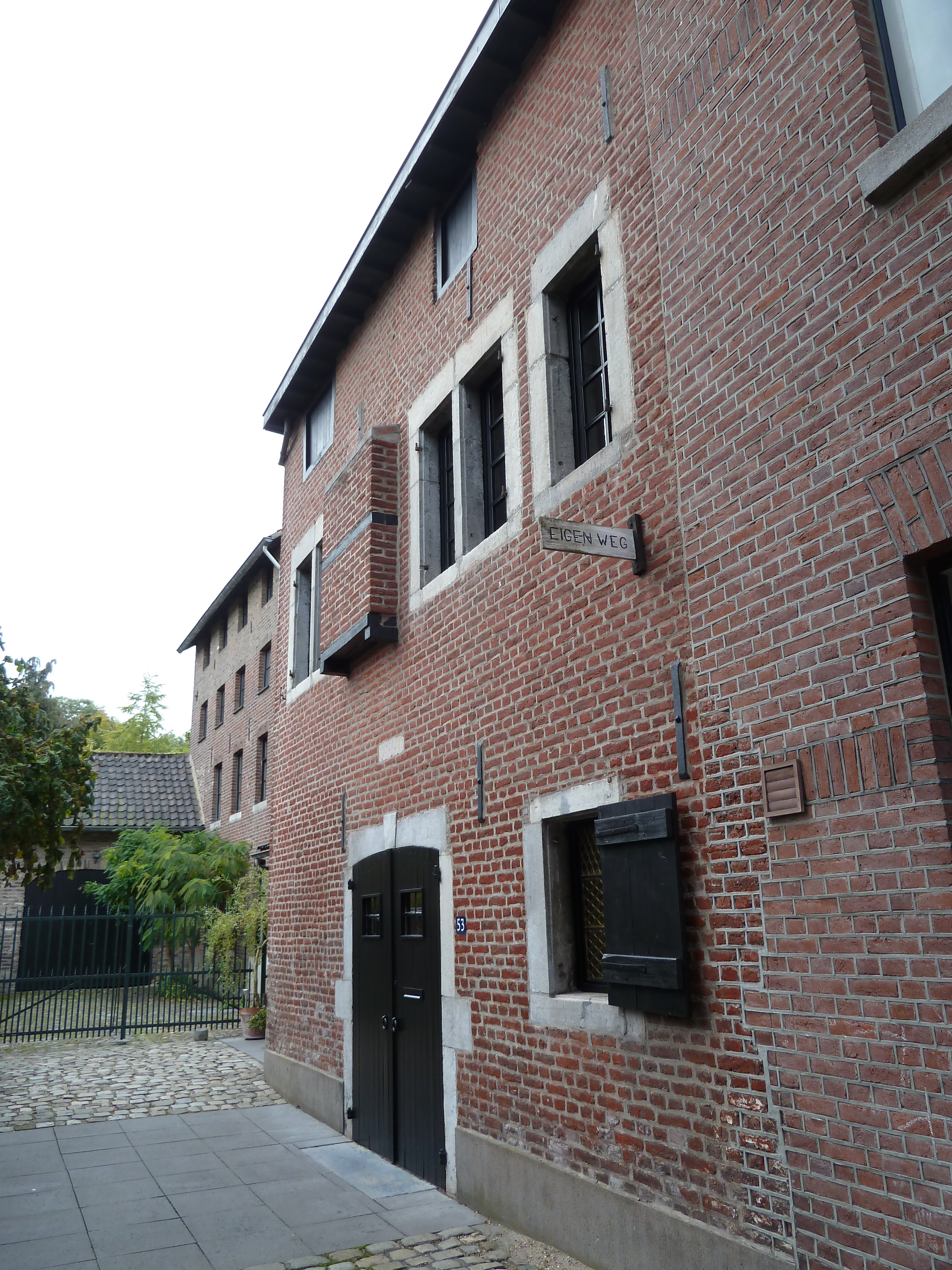 Diepstraat 53, Eijsden, Limburg, the Netherlands